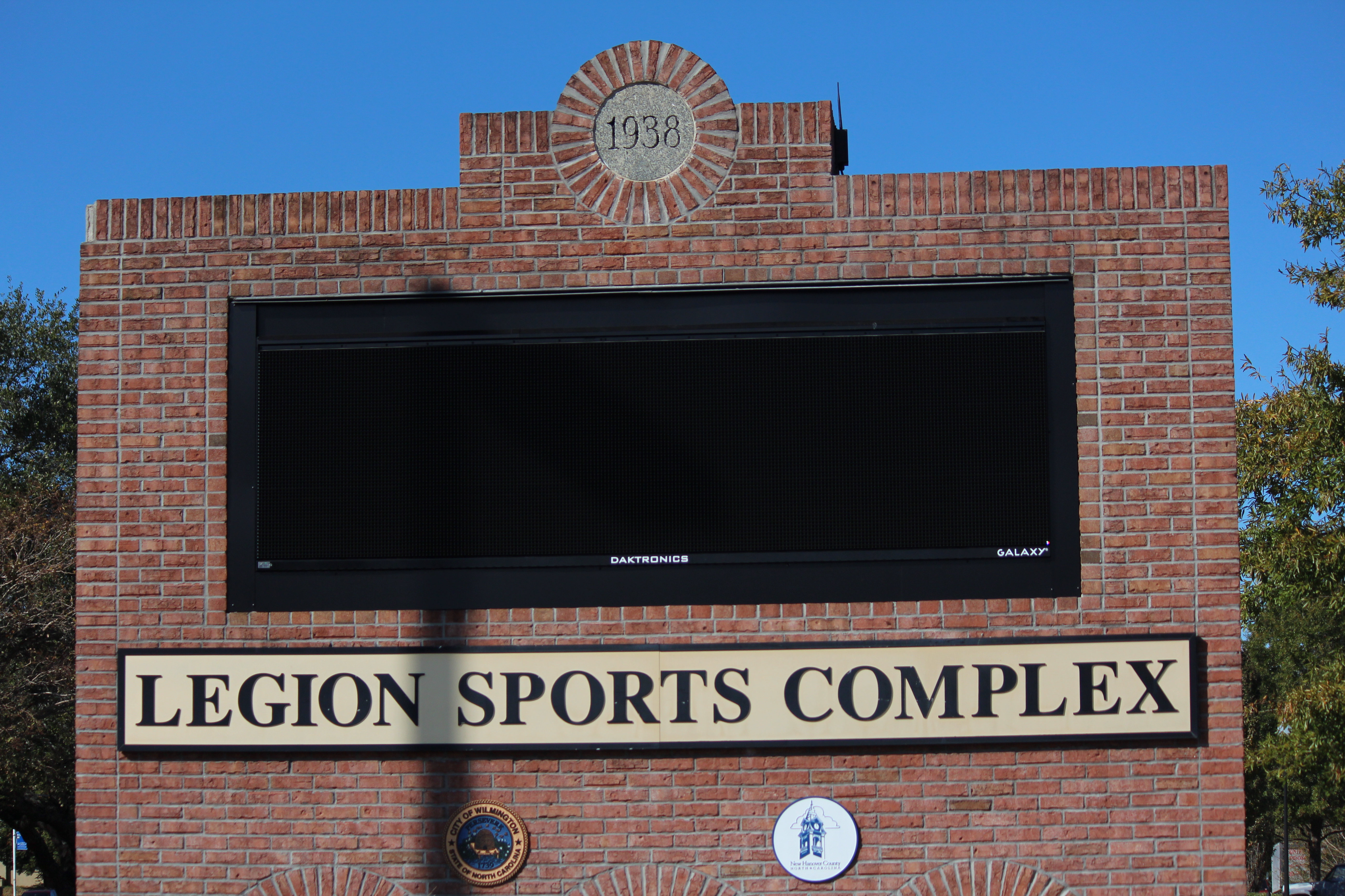 Sign at the entrance to the Legion Sports Complex in Wilmington, North Carolina, USA.